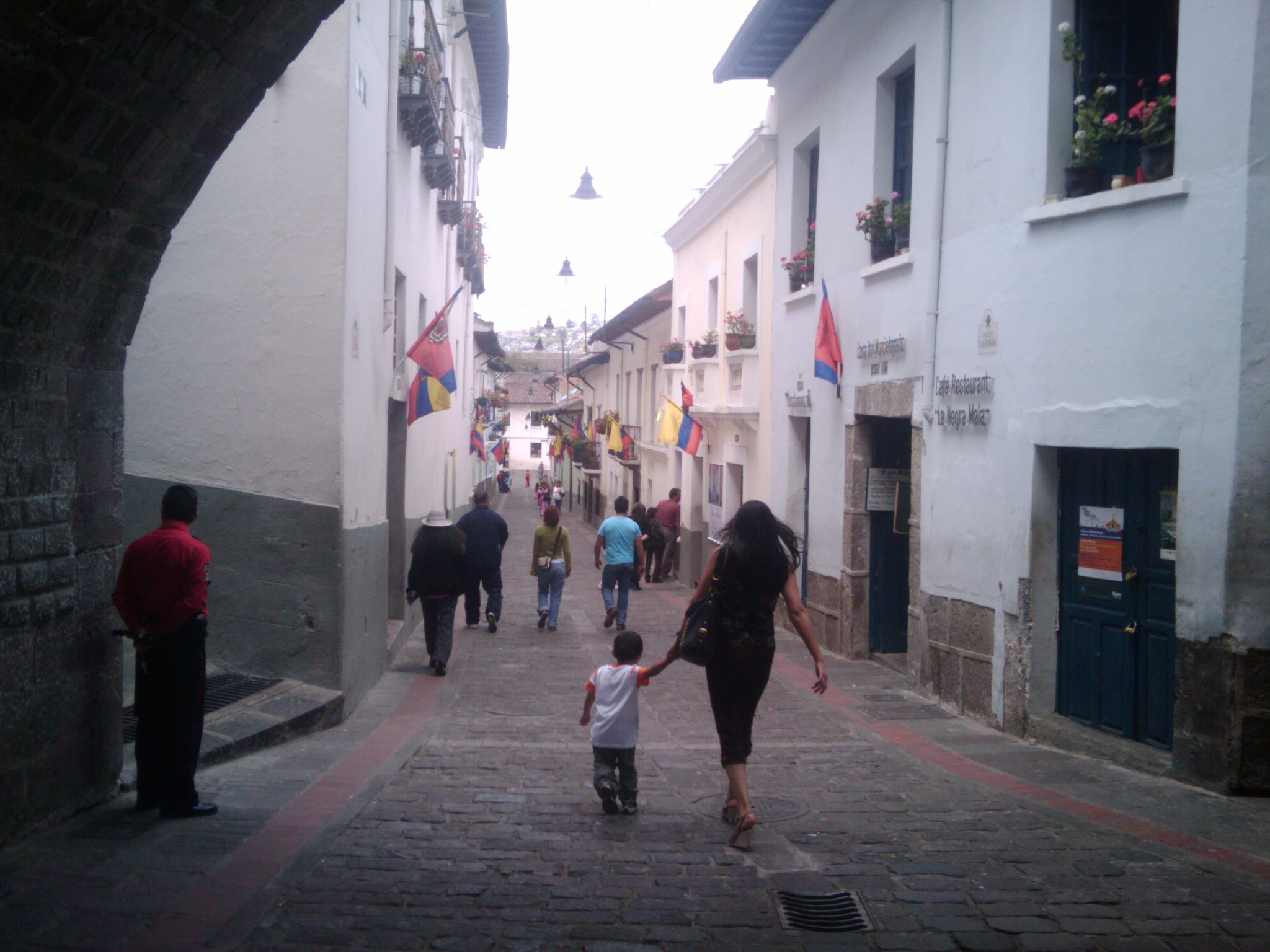 This is the "Calle La Ronda" in Quito Ecuador. A touristic place with several places to eat and drink. This street was restored in 2006.